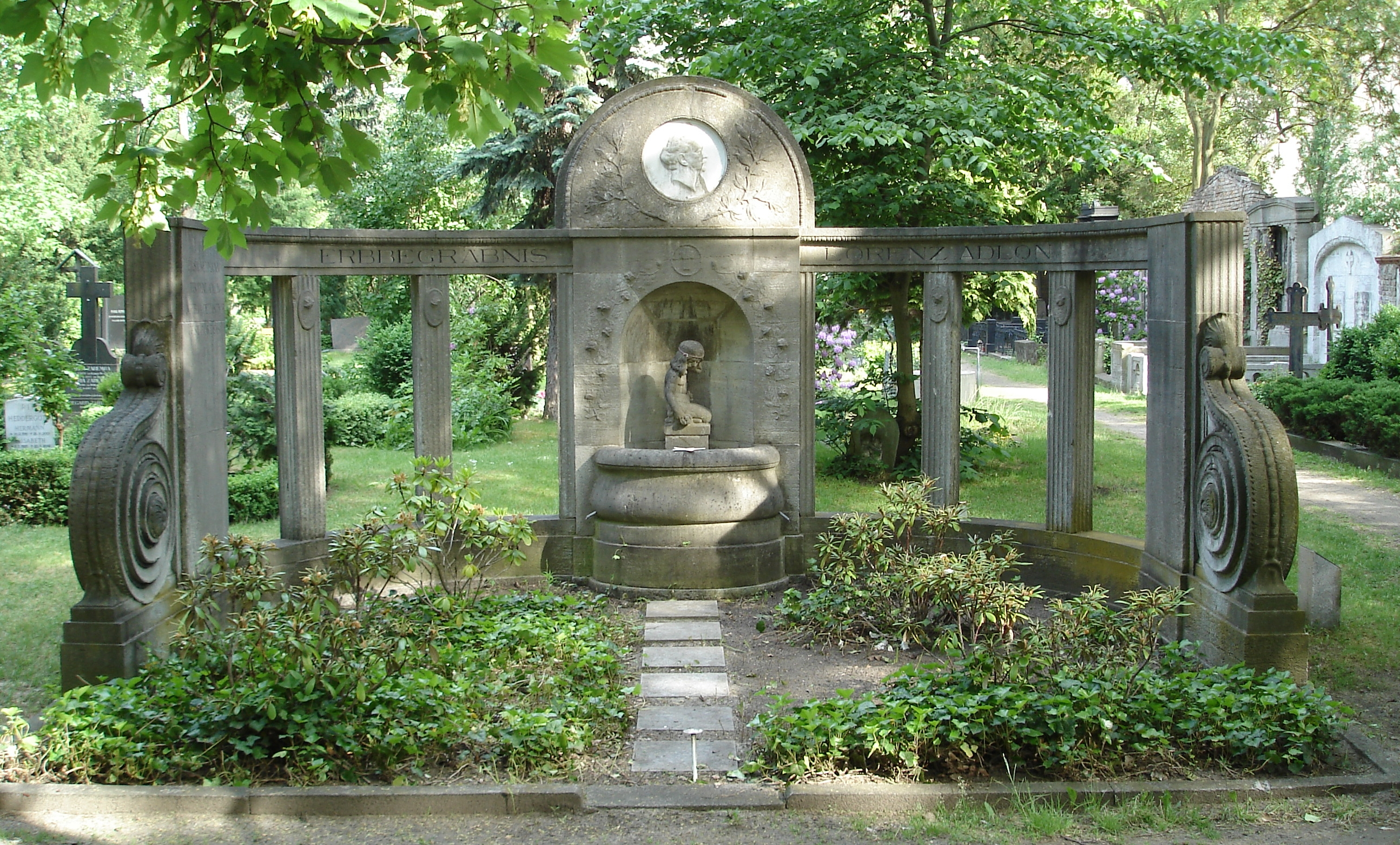 Grave of Lorenz Adlon at the graveyard Alter Domfriedhof St.-Hedwig, Berlin, view from the front